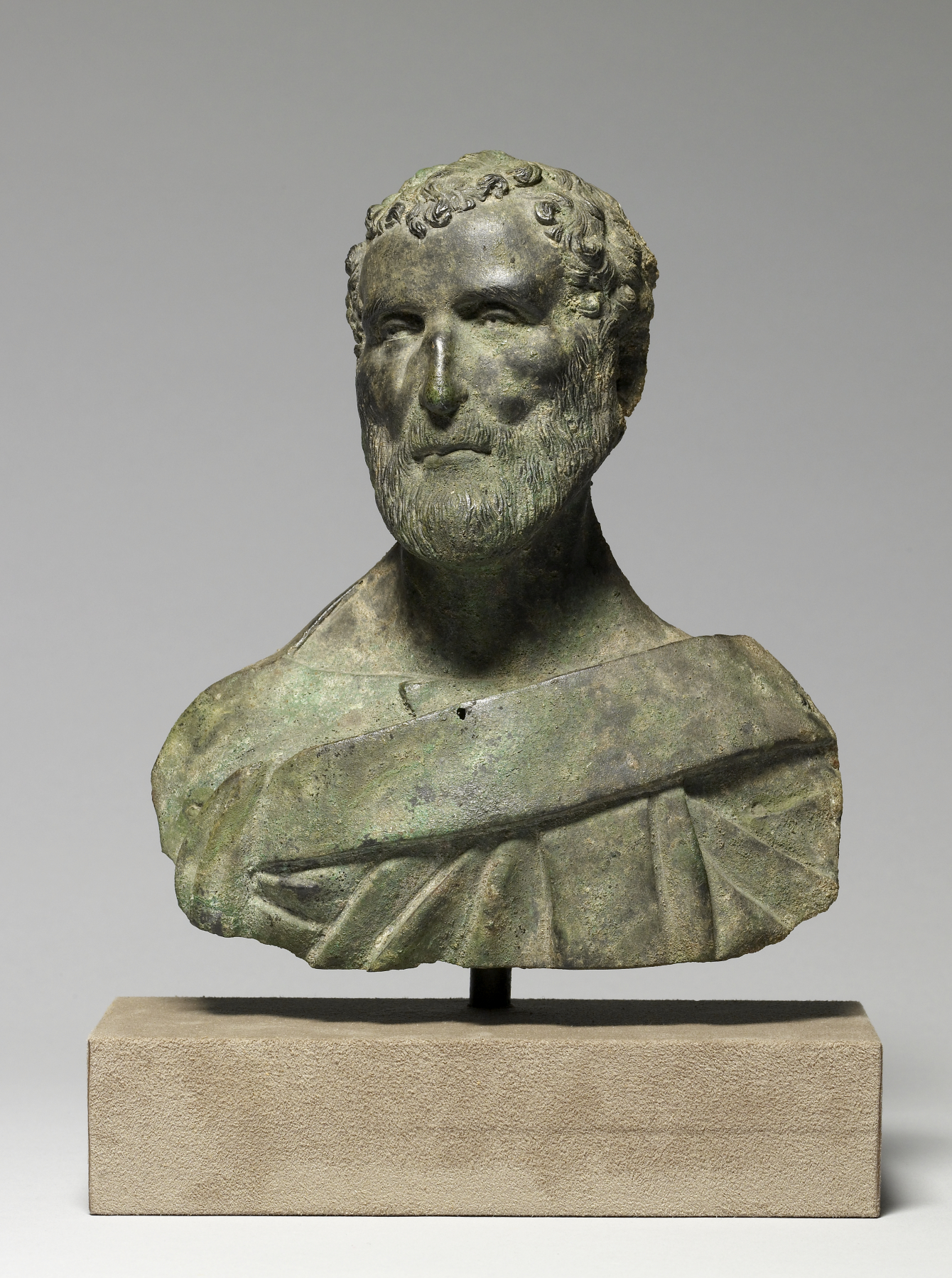 This bust was found in the house of Laberius Gallus, and the distinctive features suggest that it might represent him or a member of his family. Following the fashion of his day, he wears a toga with a heavy border folded into a band worn across the chest.